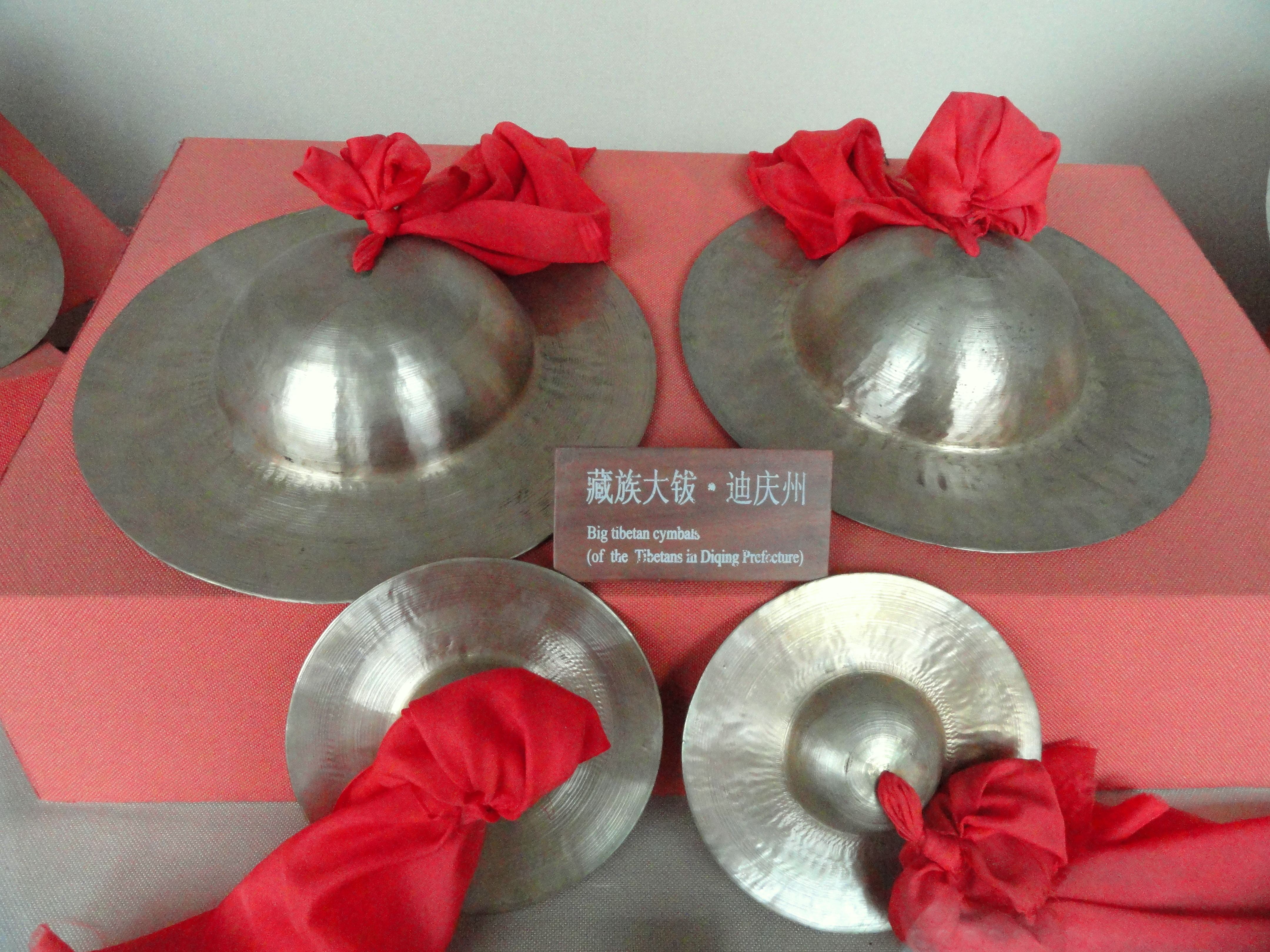 Tibetan cymbals. Musical instruments in the Yunnan Nationalities Museum, Kunming, Yunnan, China.